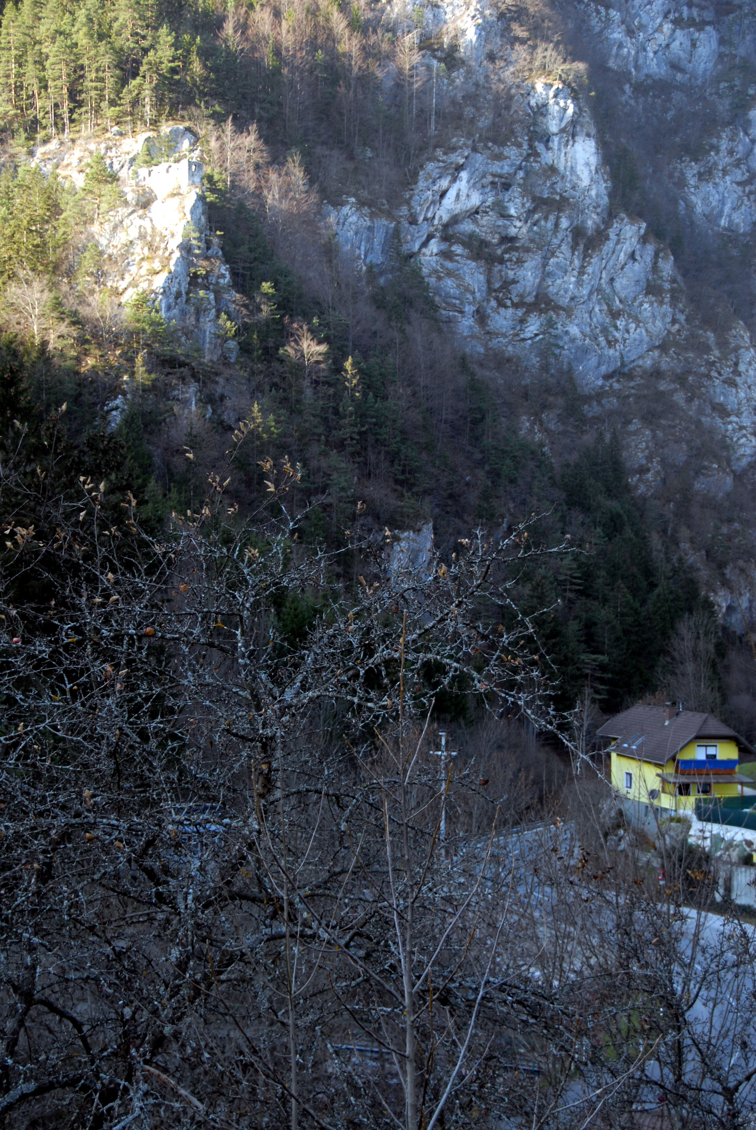 Turk entrenchment at Bad Eisenkappel, situated in the district Voelkermarkt, Carinthia, Austria.